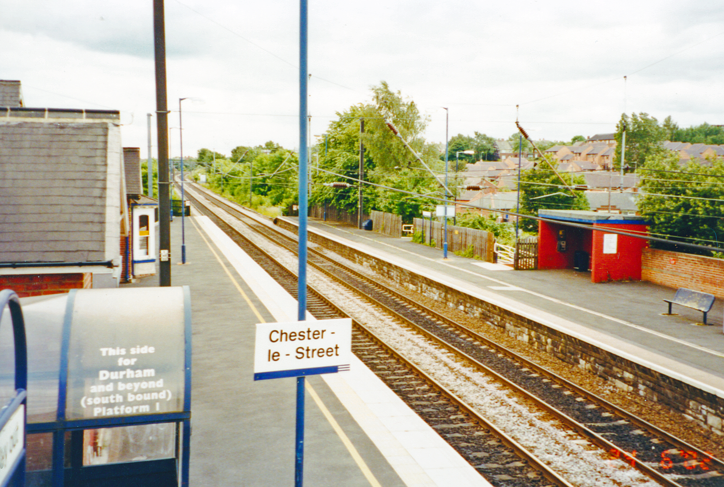 Chester-le-Street Station, ECML 2002. View southward, towards Durham, Darlington, York and the South: ex-NER York - Newcastle section of the East Coast Main Line, electrified 1990. Since 1999, the station has been operated by an independent PLC as agent to National Rail - hence the smartness.